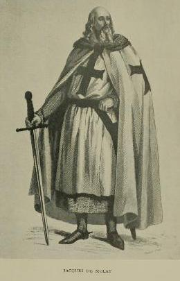 Illustration from PD book, of character playing a role in the "history" of Freemasonry